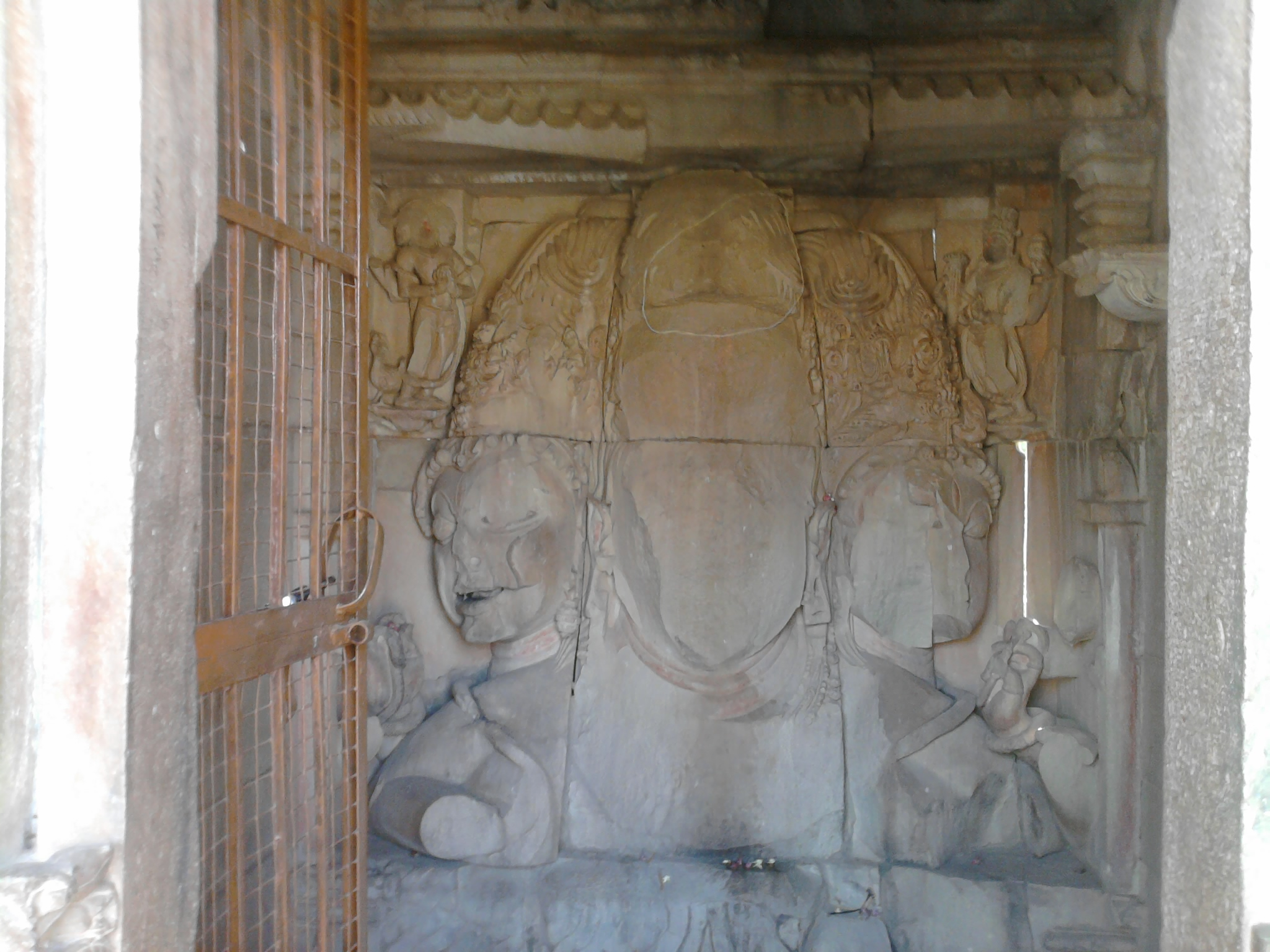 Baroli Temples at nearby Baroli village are one of the oldest temple complexes (9th century AD) in Rajasthan. The chief architect of the Baroli temples was from Orissa